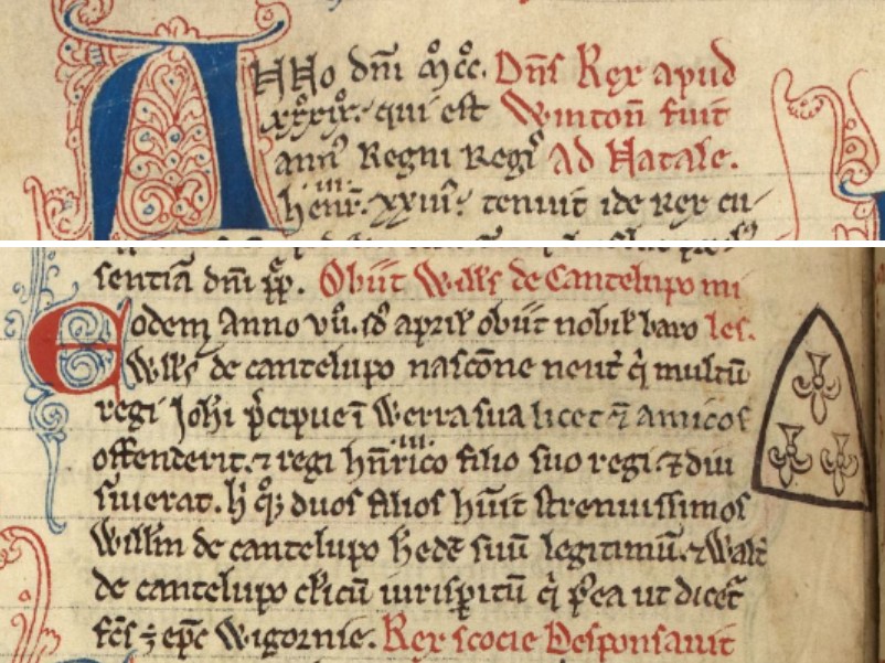 Historia Anglorum by Matthew Paris, folio 128 v, recording the death of William de Cantilupe in 1239, with a marginal drawing of his shield inverted: Gules, three fleurs-de-lys or. Paragraph heading in red ink: Obiit Wills de Cantelupo Miles ("William de Cantilupe, Knight, died")Eodem anno vii id april obiit nobil(issimus) baro Wil(ielmu)s de Cantelupo ("in the same year (MCCXXXIX, XXIIIrd of King Henry III as stated above) on 7th April died the most noble baron William de Cantilupe")